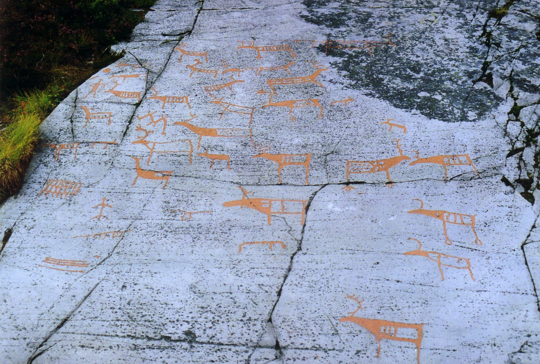 Stone Age rock art at Alta Museum in Alta, North Norway